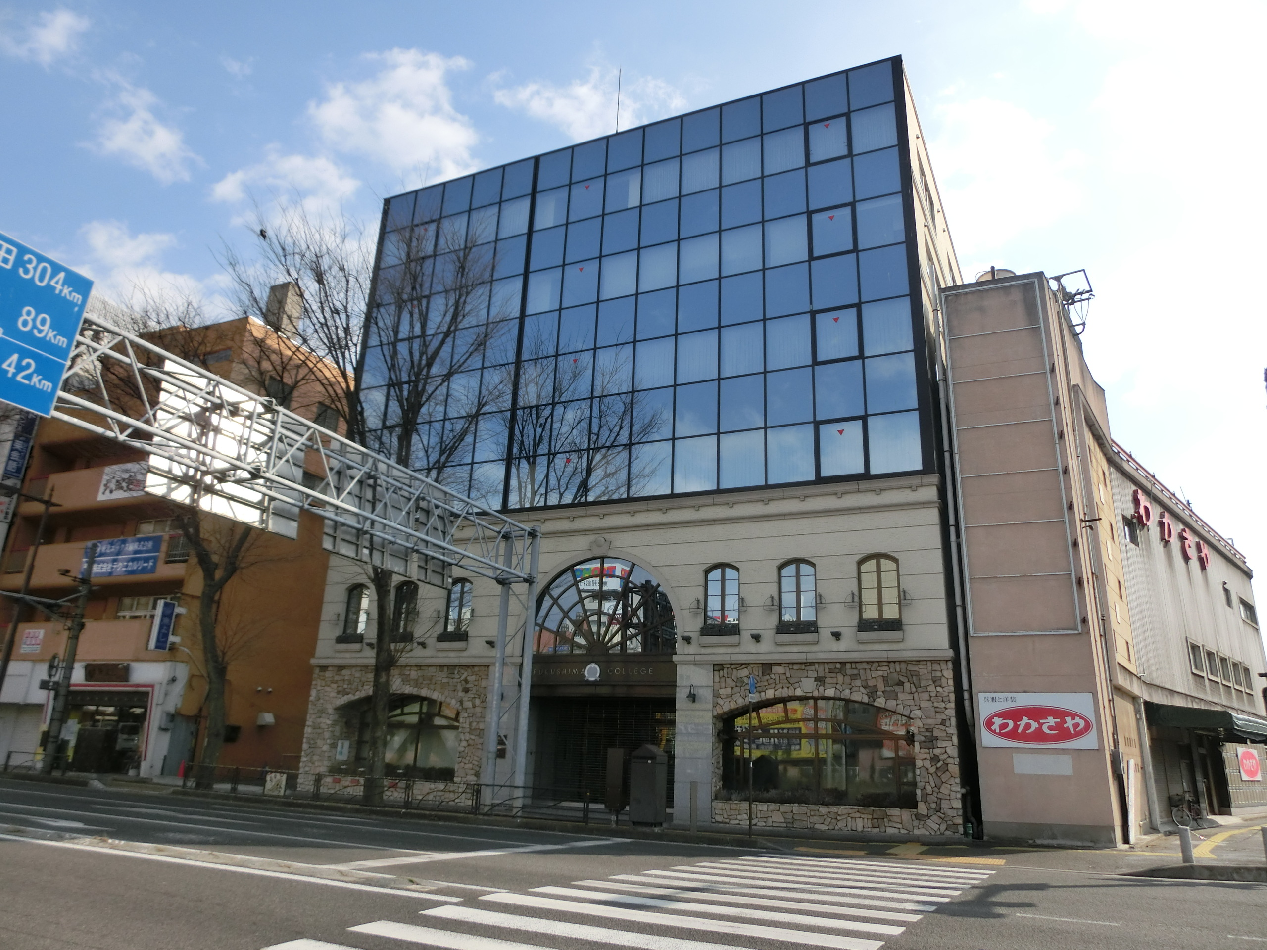 Fukushima College Fukushima Ekimae Campus